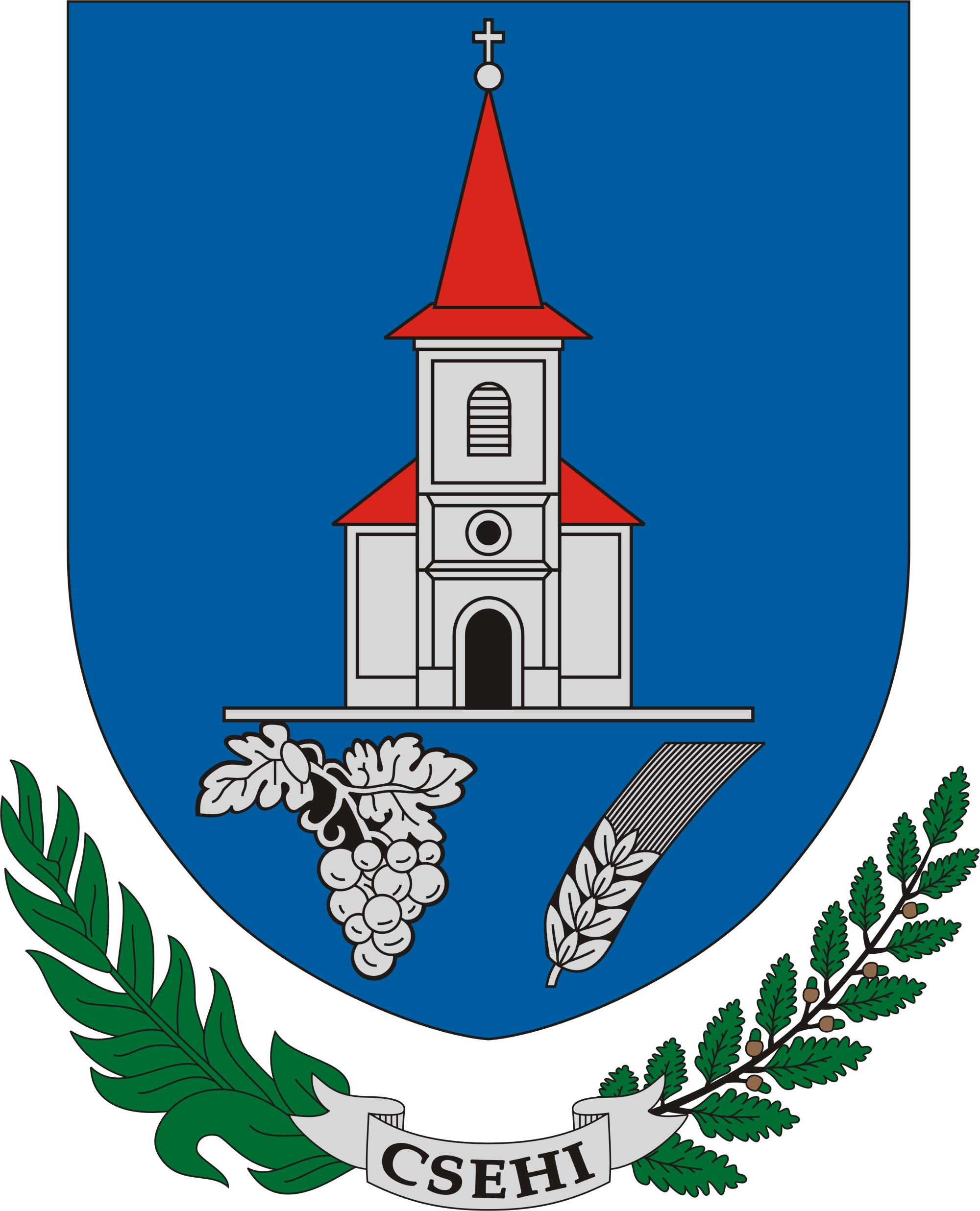 Coat of arms of Csehi, Hungary